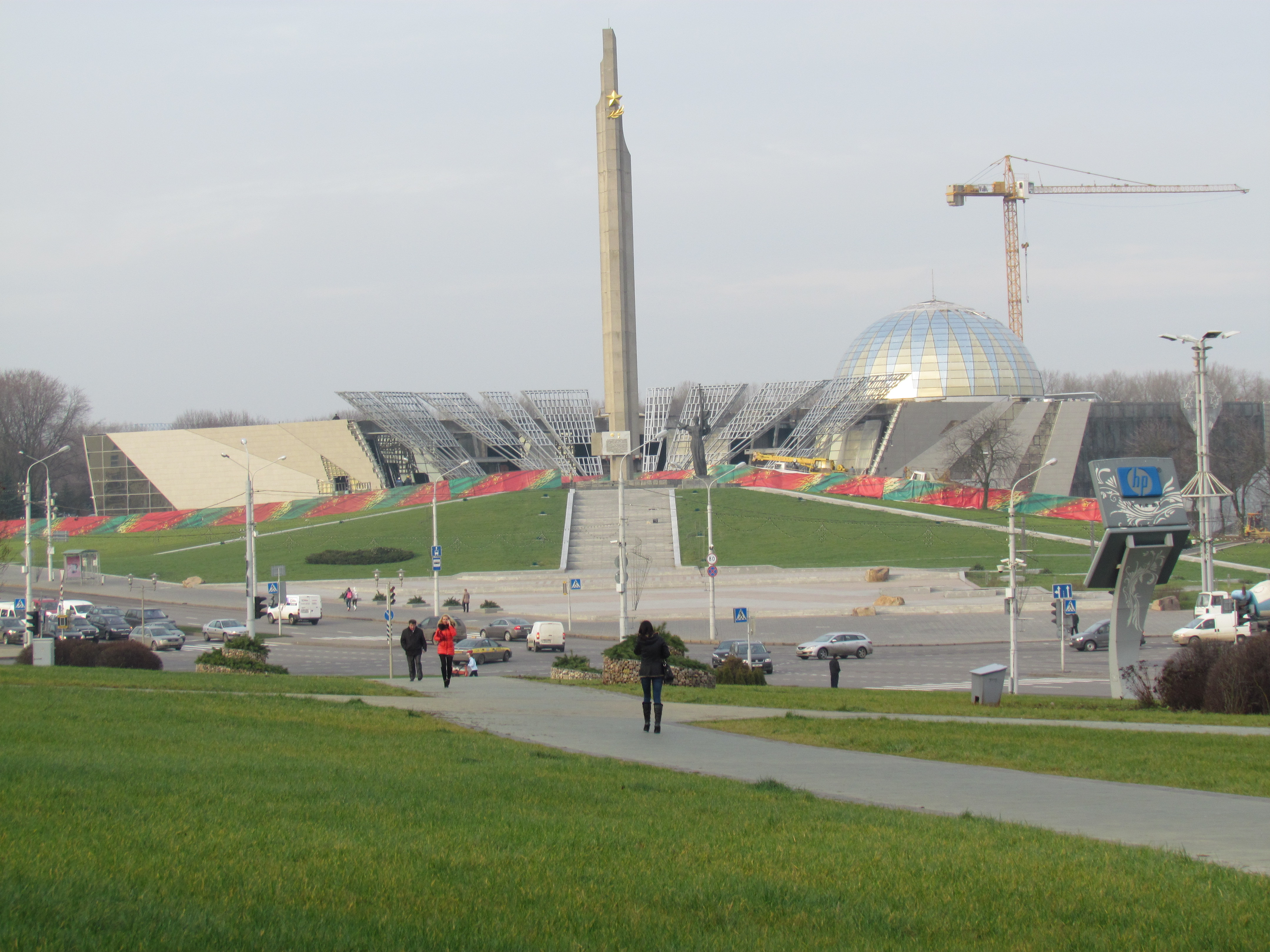 Minsk art work